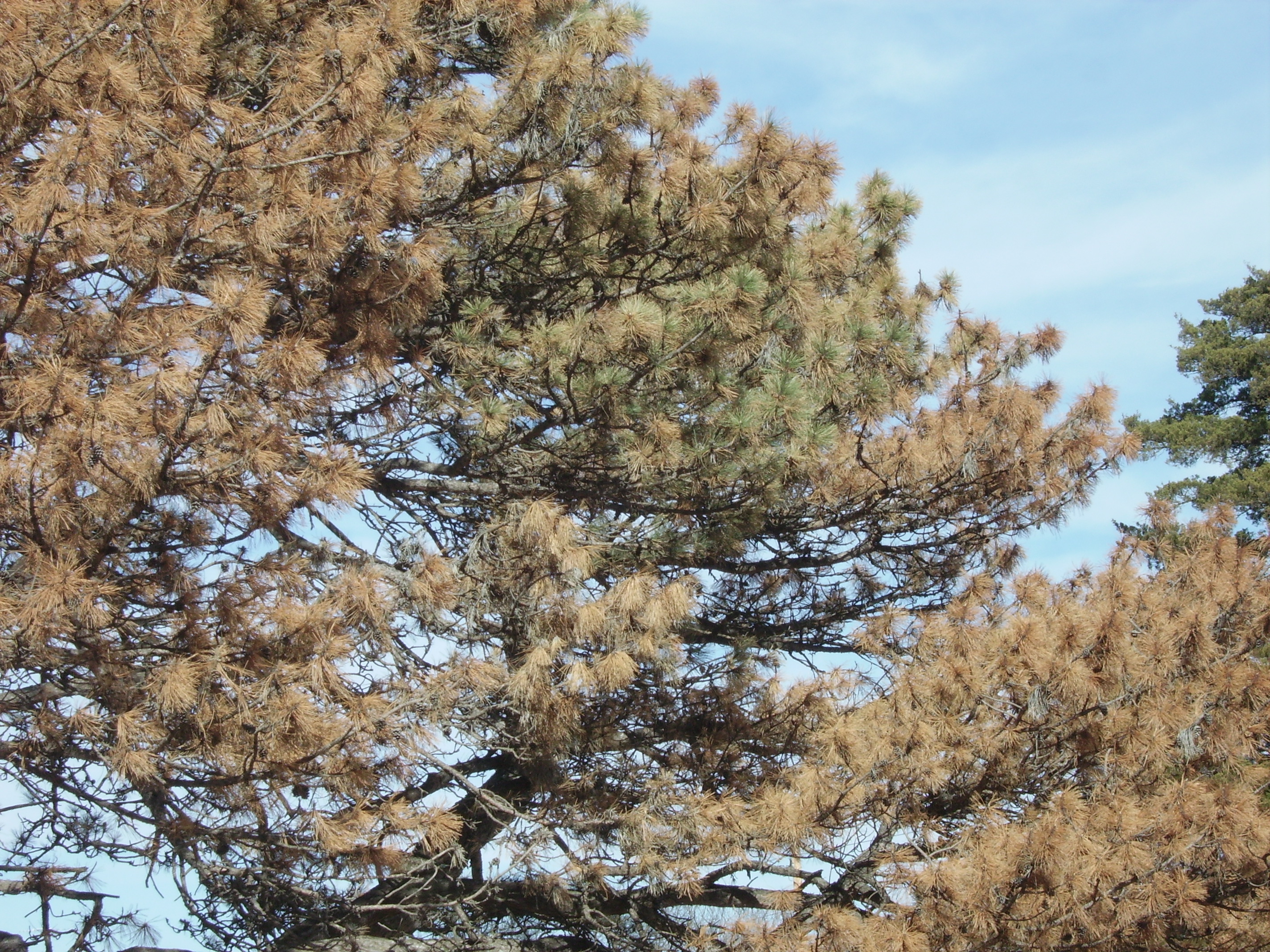 Part of Austrian Pine with pine wilt. This tree is roughly 75% dead at this point.